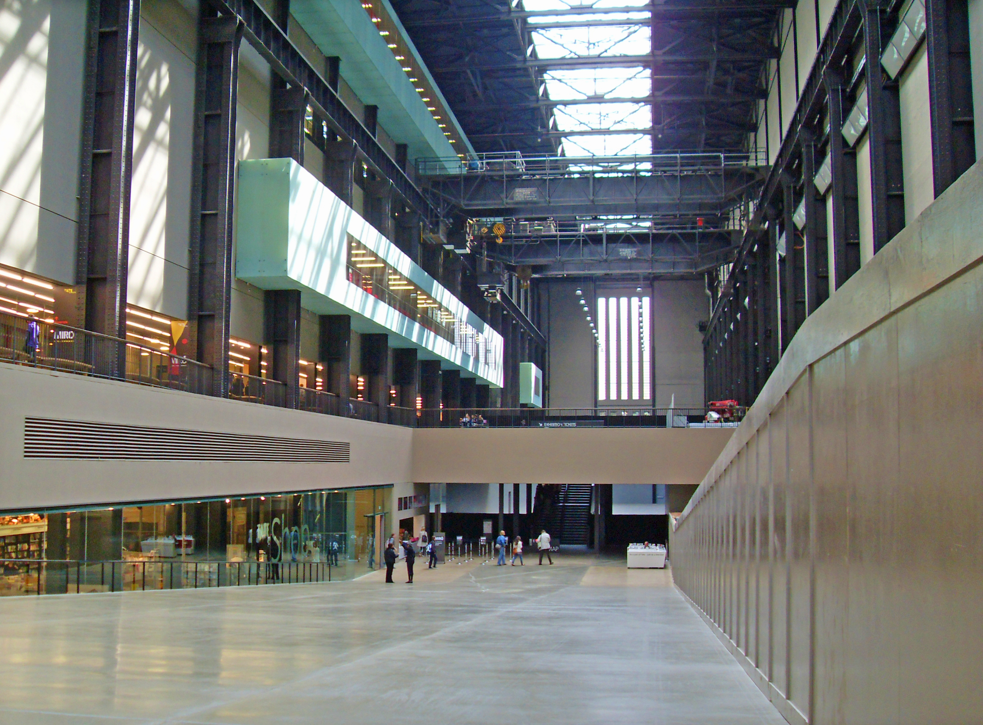 The turbine hall in Tate Modern.